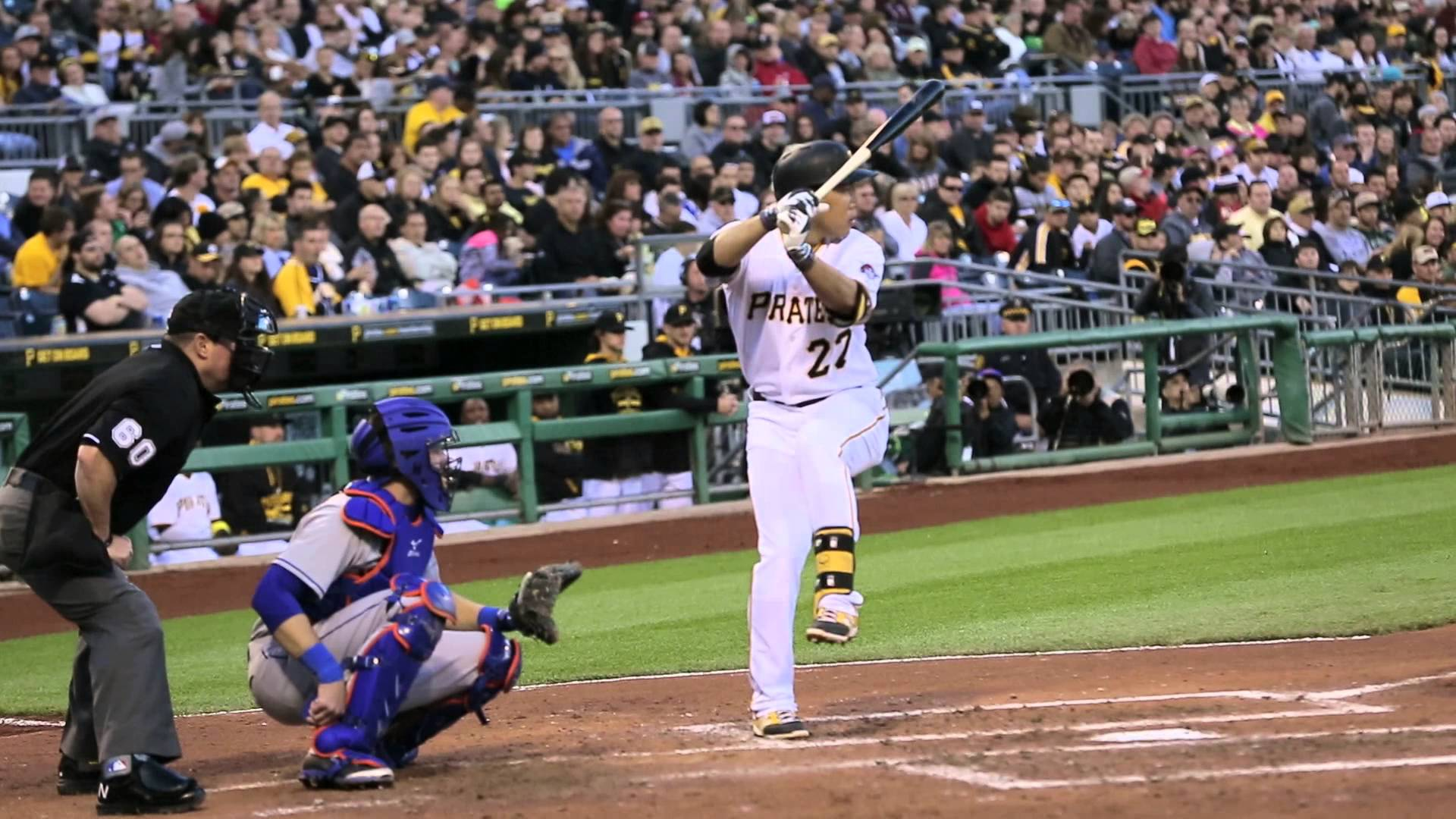 Jung-ho Kang hitting in a game.